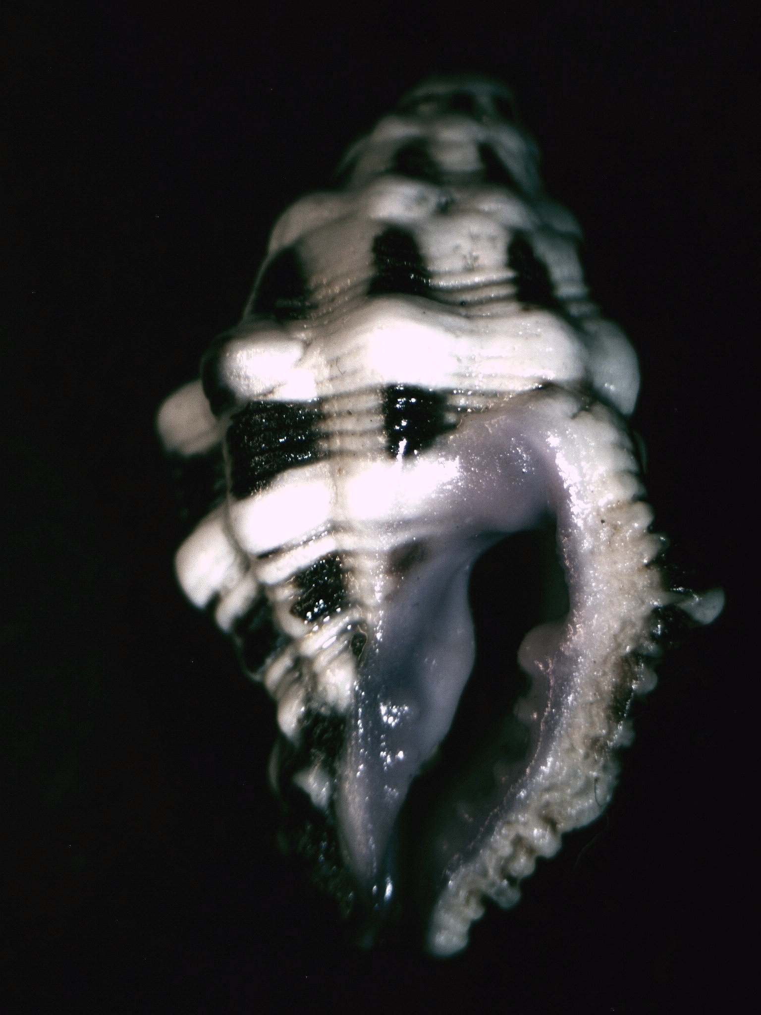 Morula (Habromorula) striata (Pease, 1868) , a murex snail from the family Muricidae; Philippines